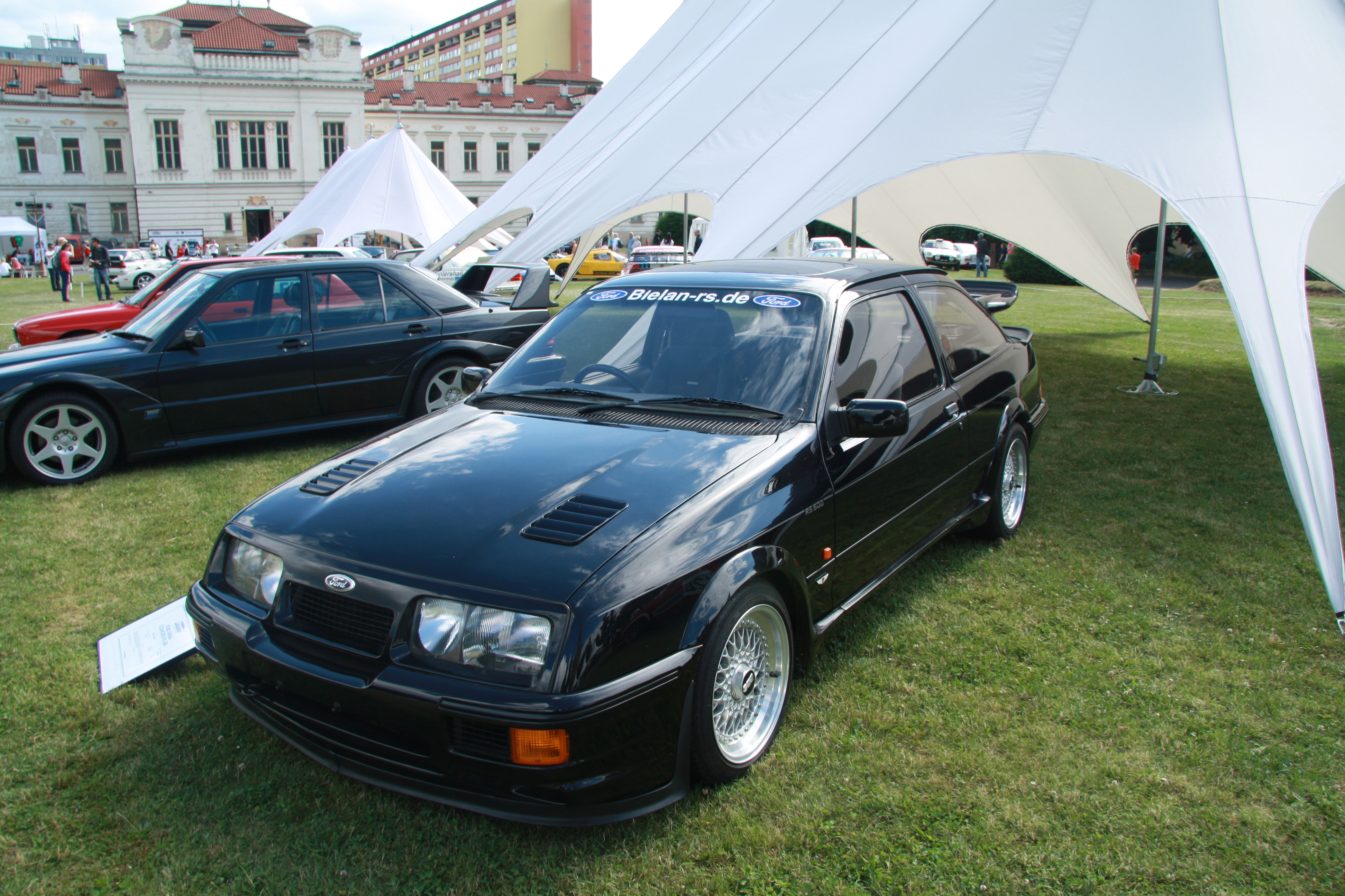 Ford Sierra Cosworth RS 500 at Legendy 2014.